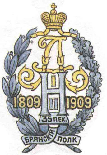 Badge of Bryansky 35-th Regiment